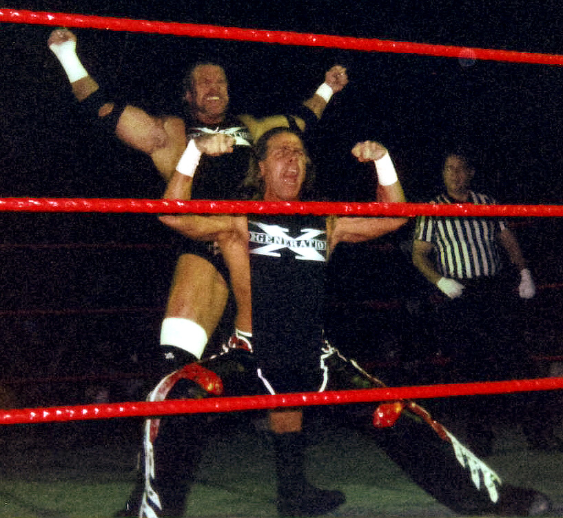 DX performing their signature pose